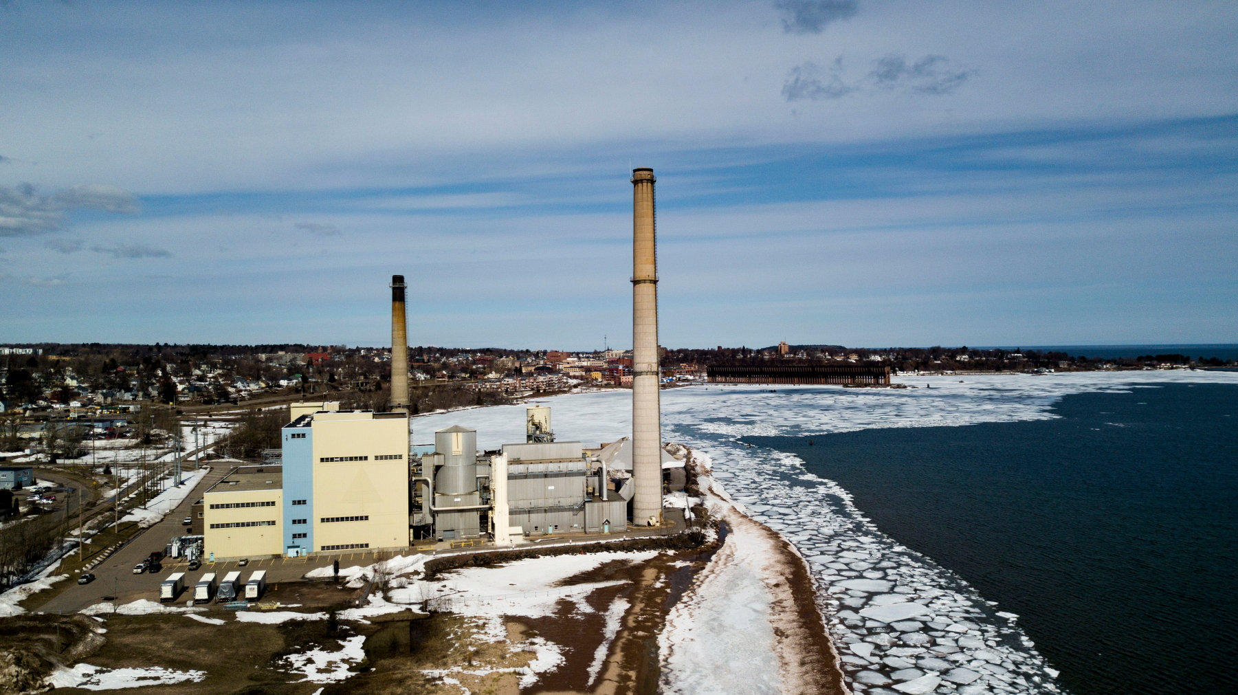 Shiras Steam Plant after decommissioning, Marquette, Michigan, 2019.